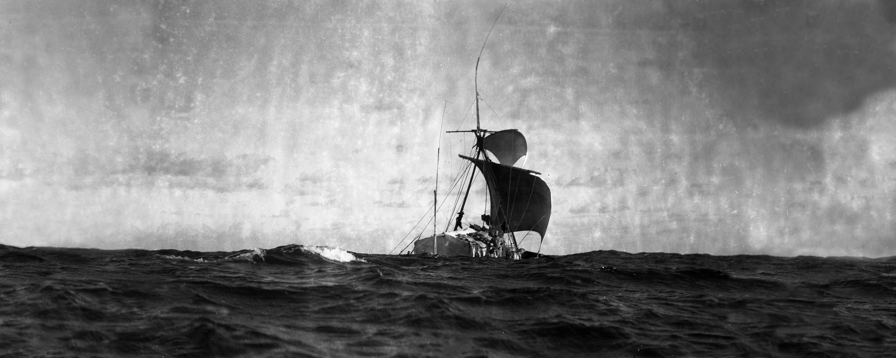 Still picture from the movie Kon-Tiki